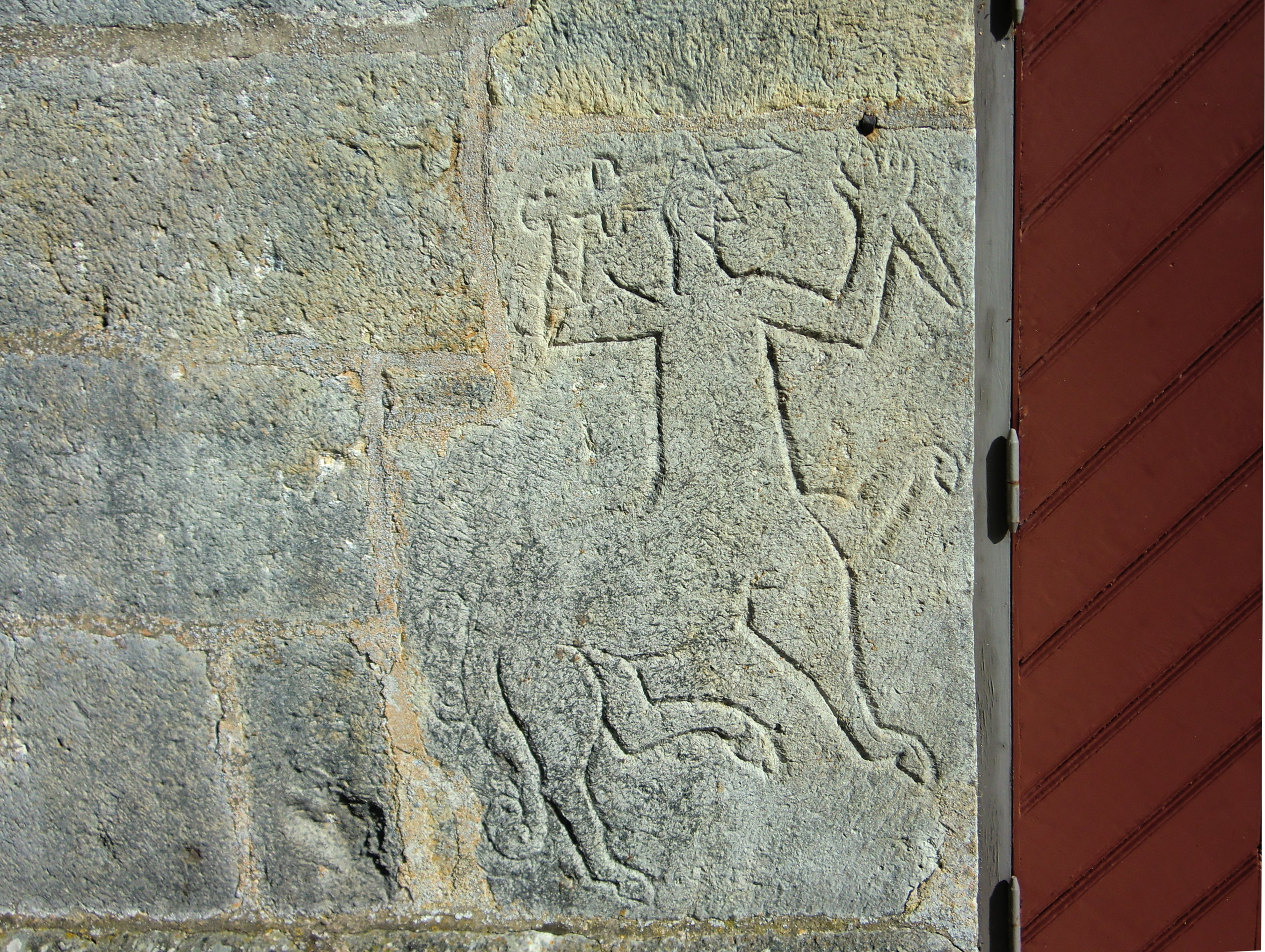 Centaur as relief close to the door at Gösslunda church, Kålland, Sweden. Its purpose is believed to be to defy anything evil from entering the church.